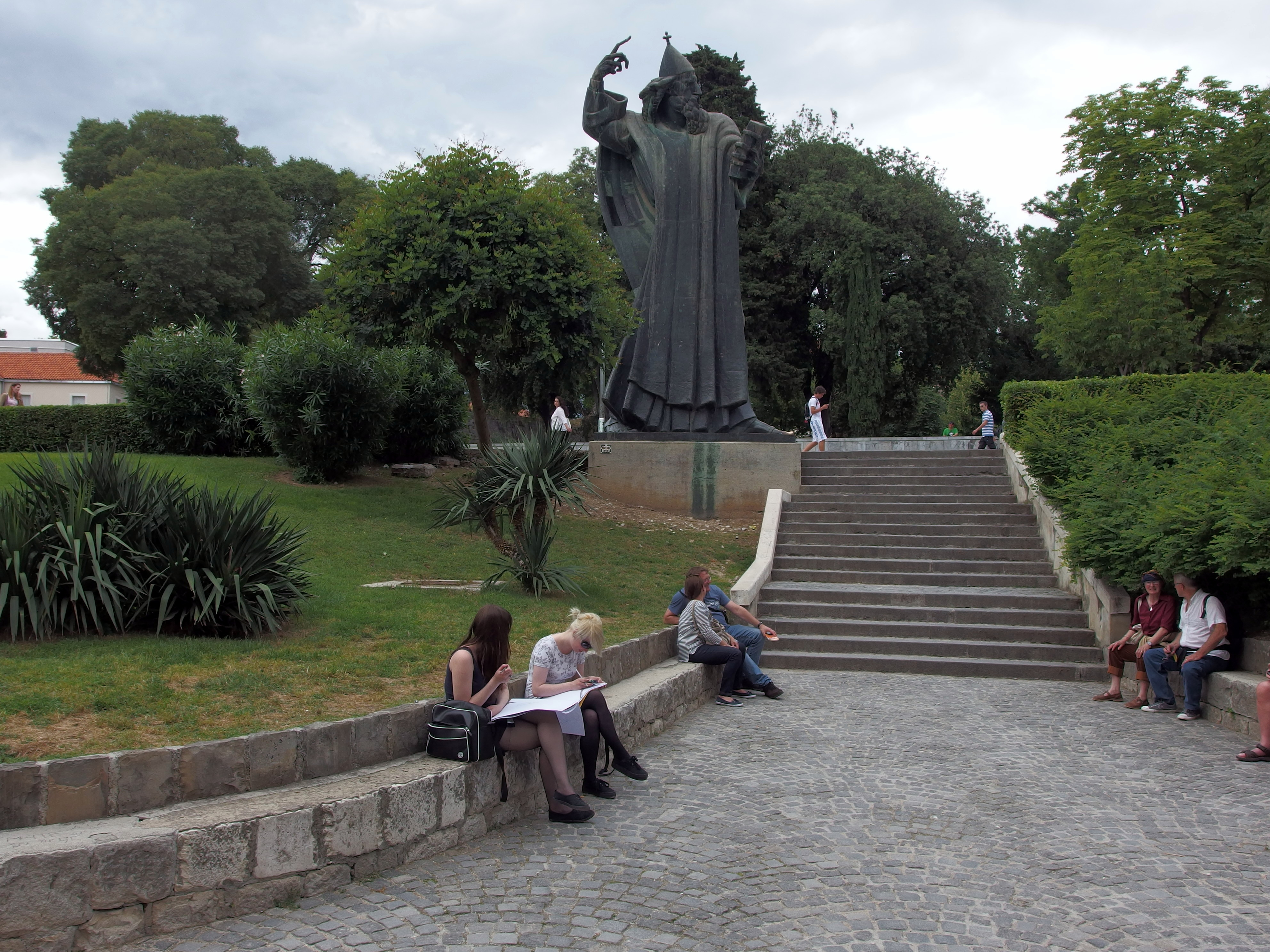 2013-06-03 in Split.